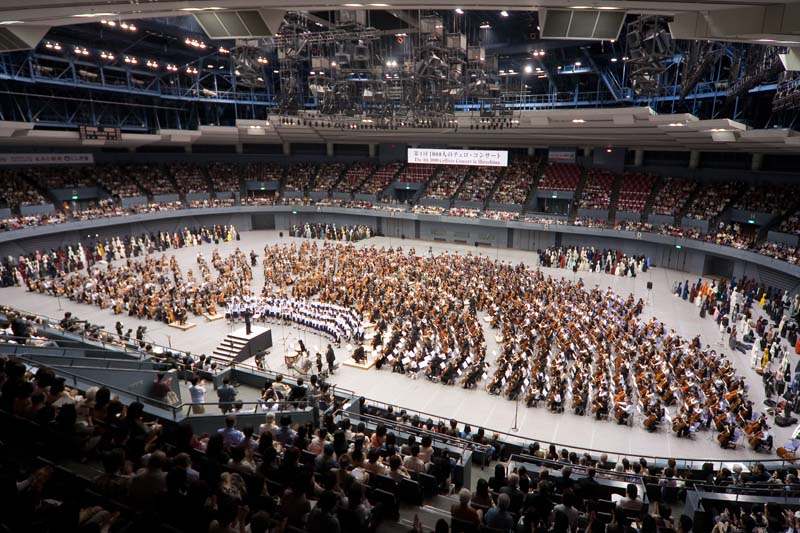 The 4th 1000 Cellists Concert ~ Heartfully Wishing for Peace on Earth from Hiroshima ~